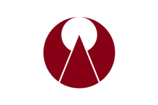 Flag of Ogori Fukuoka